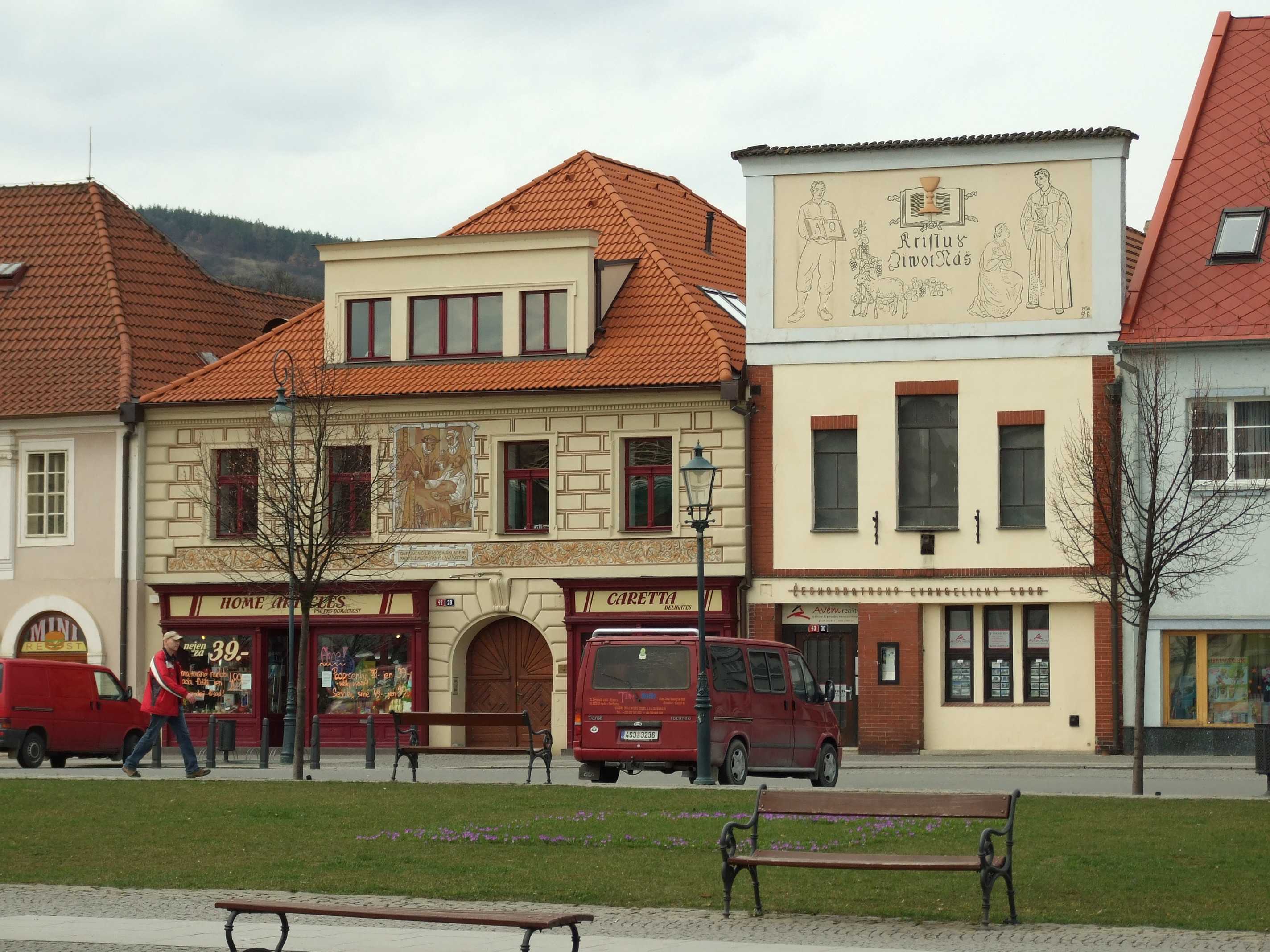 City of Beroun and surrounding nature in Central Bohemian region, CZhelp